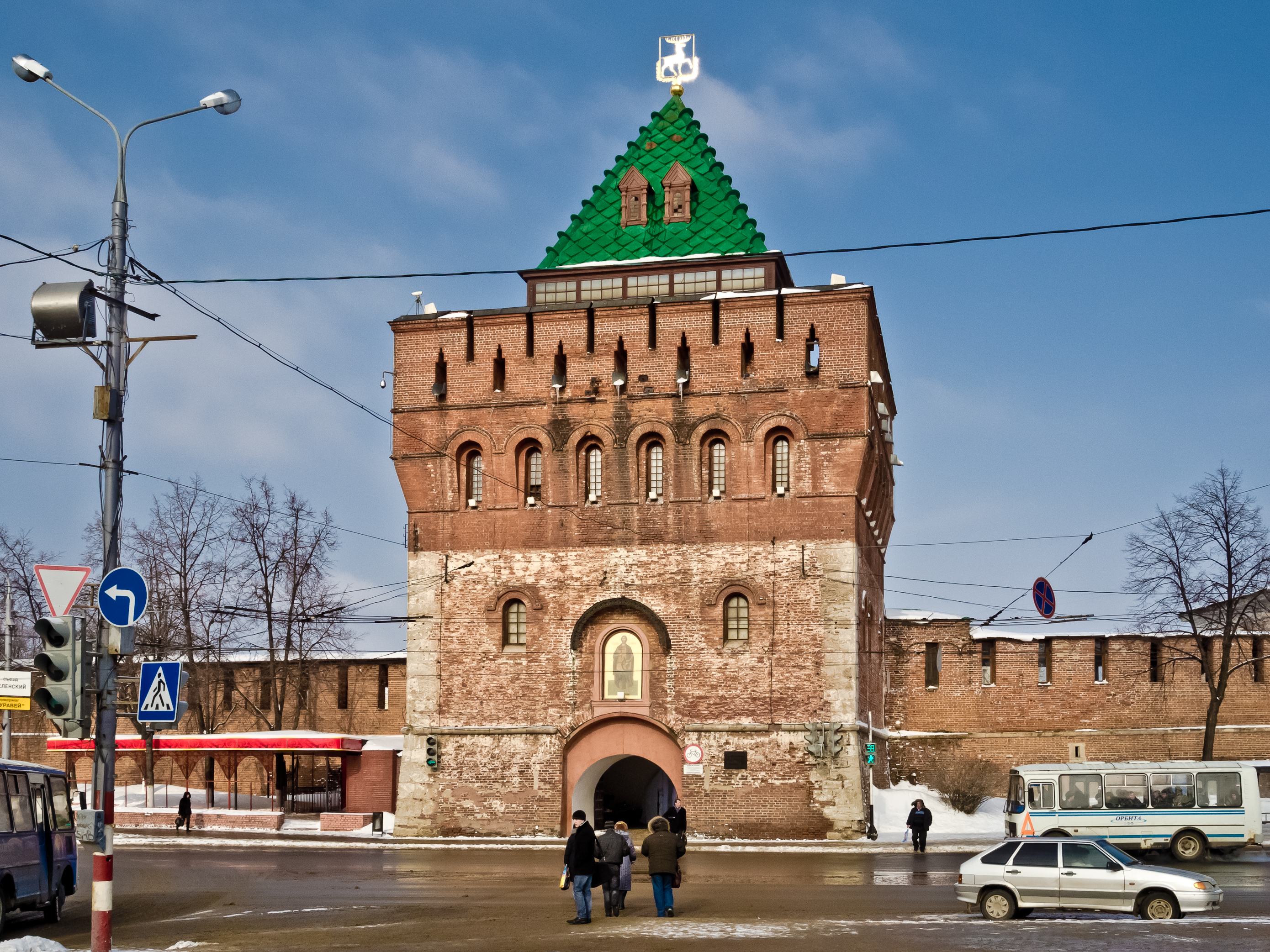 Dmitrovskaya Tower of Nizhny Novgorod Kremlin